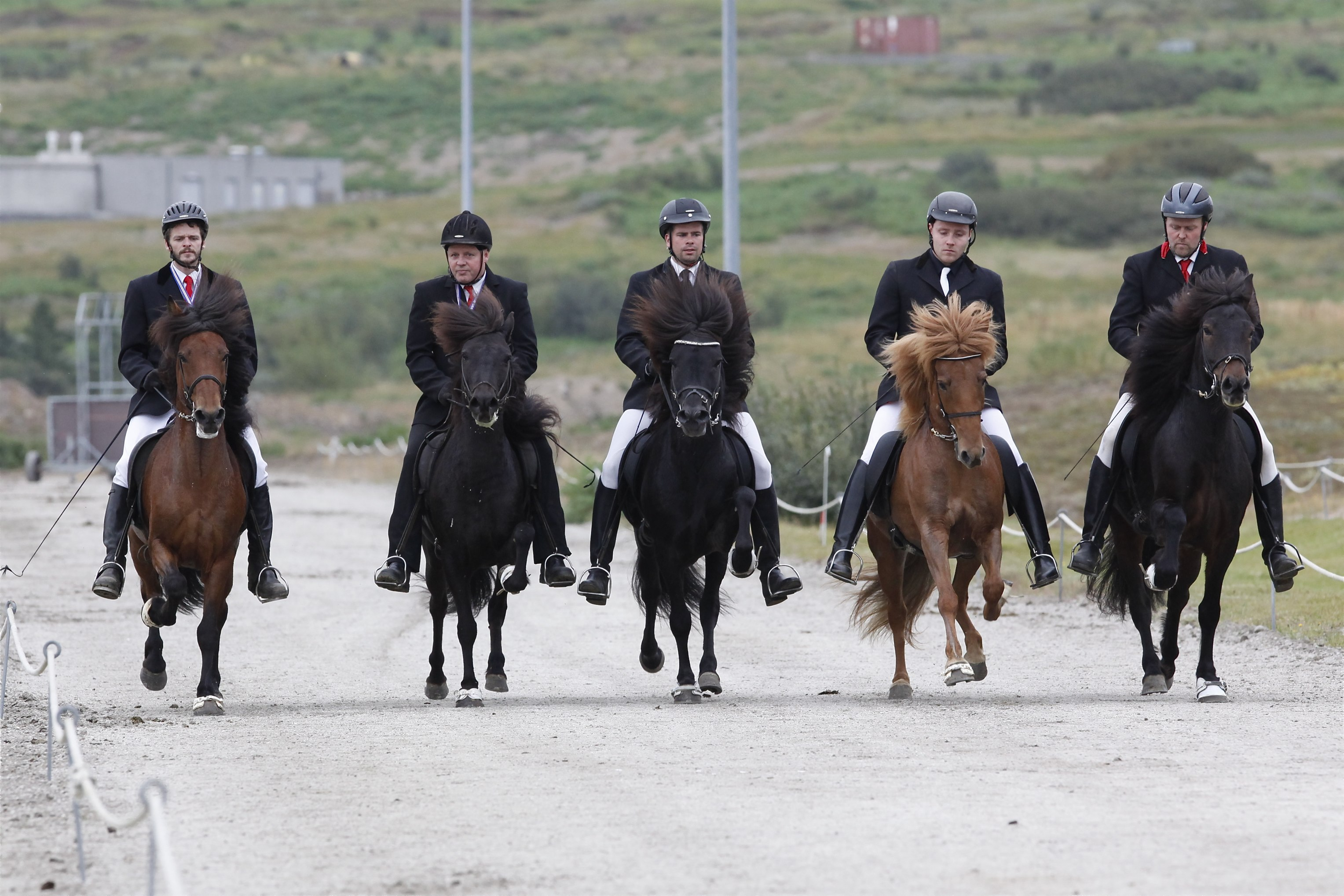 Five men riding Icelandic horses at tölt